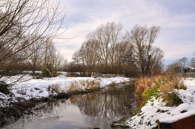 The River Slea - Sleaford It is at this point that the Slea first enters the populated area of the town after leaving fields lying to the west.